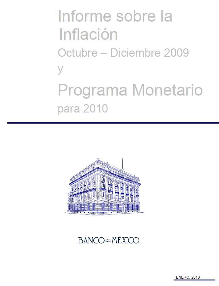 Quartely Inflation report